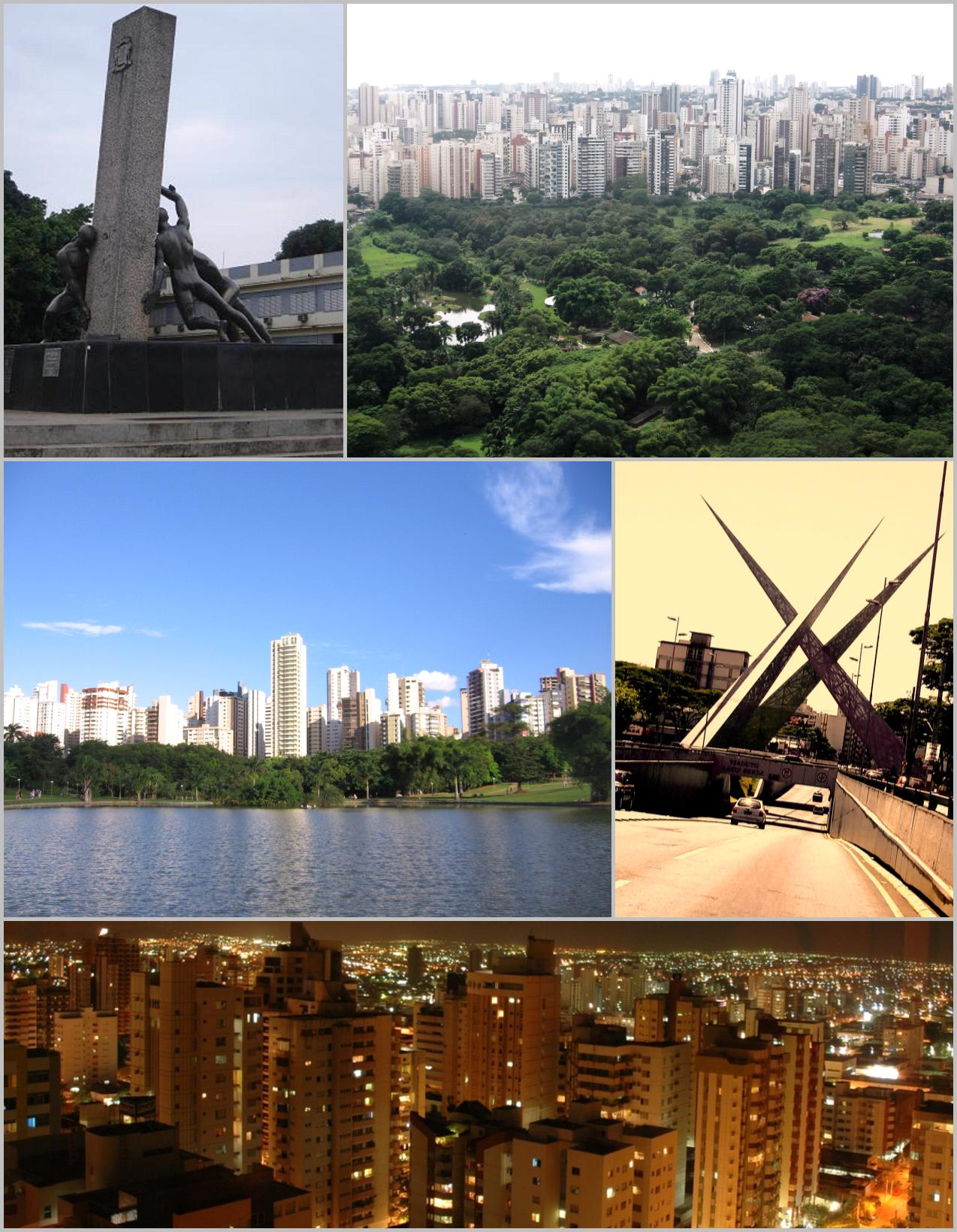 Montage of Goiânia, Goiás, Brazil.